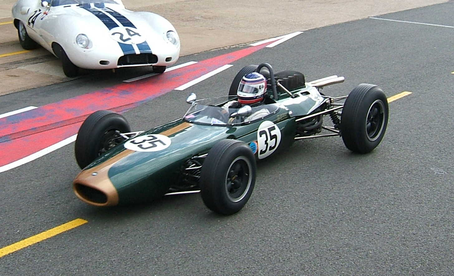 A Brabham BT11, resplendent in Australian racing green and gold, enters the pits during the Silverstone Classic meeting, Silverstone Circuit, July 2007.